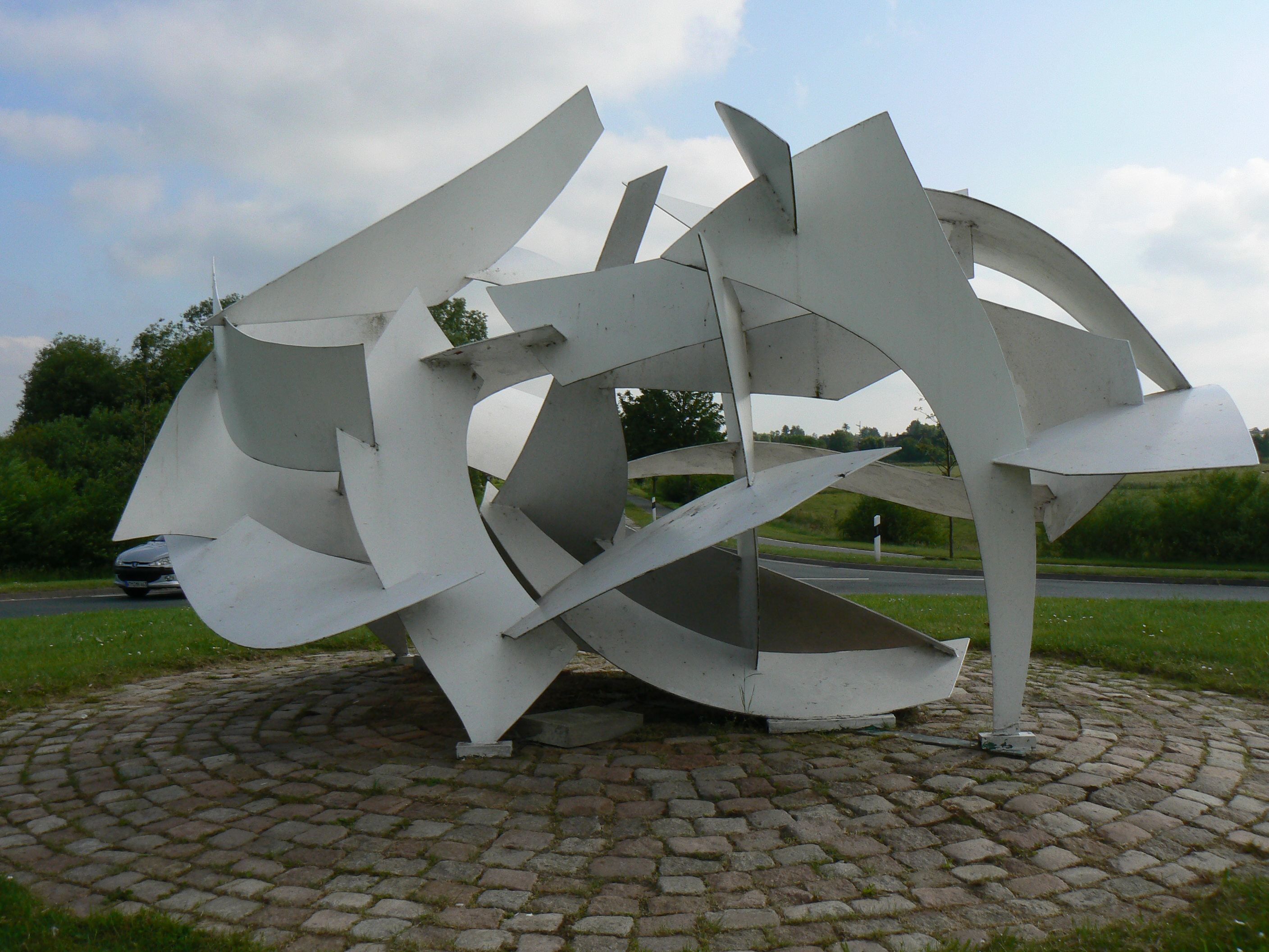 Sculpture Andreas Freyer in Wittmund/Germany